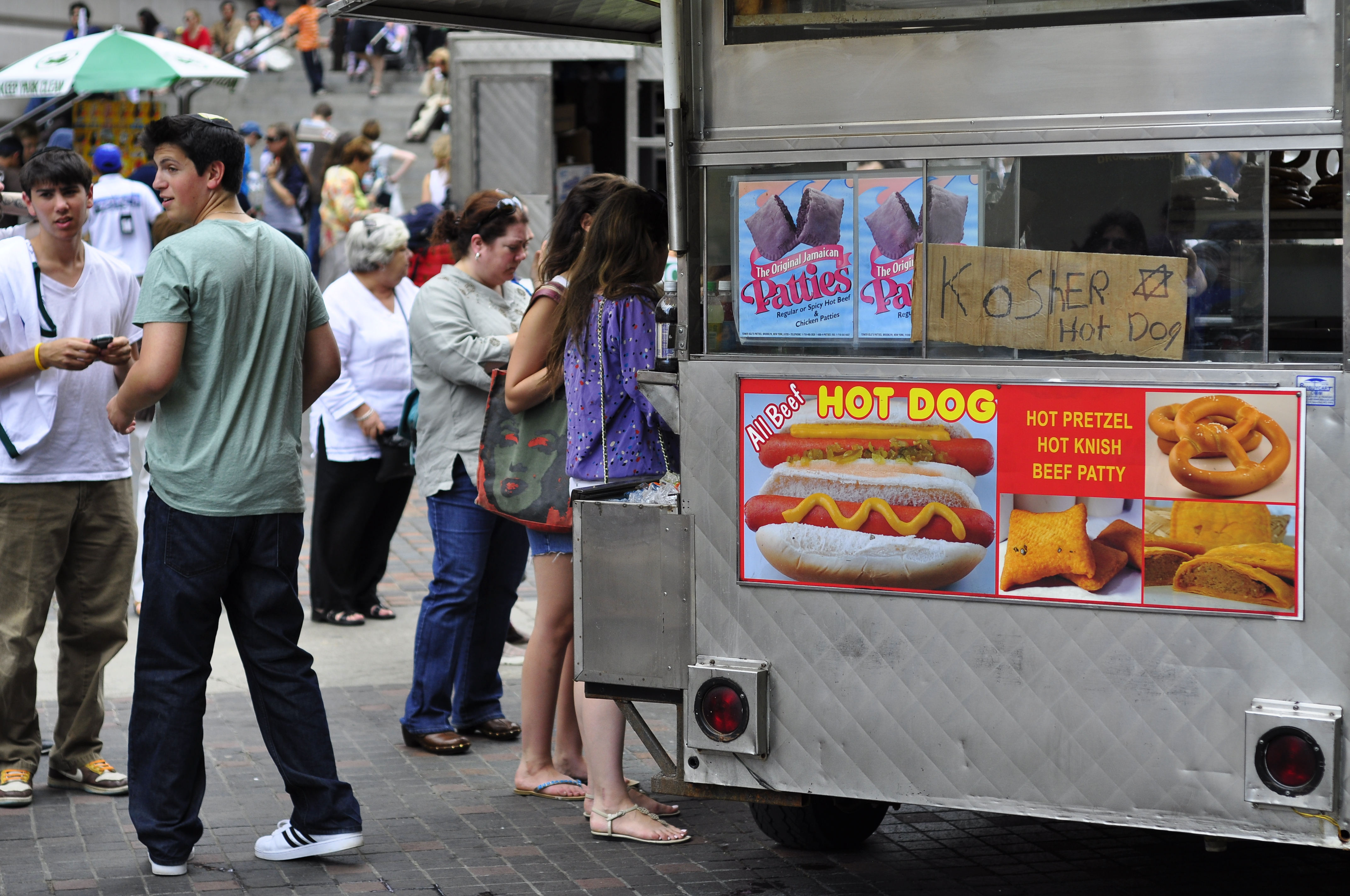 A kosher hotdog stand in New York City.